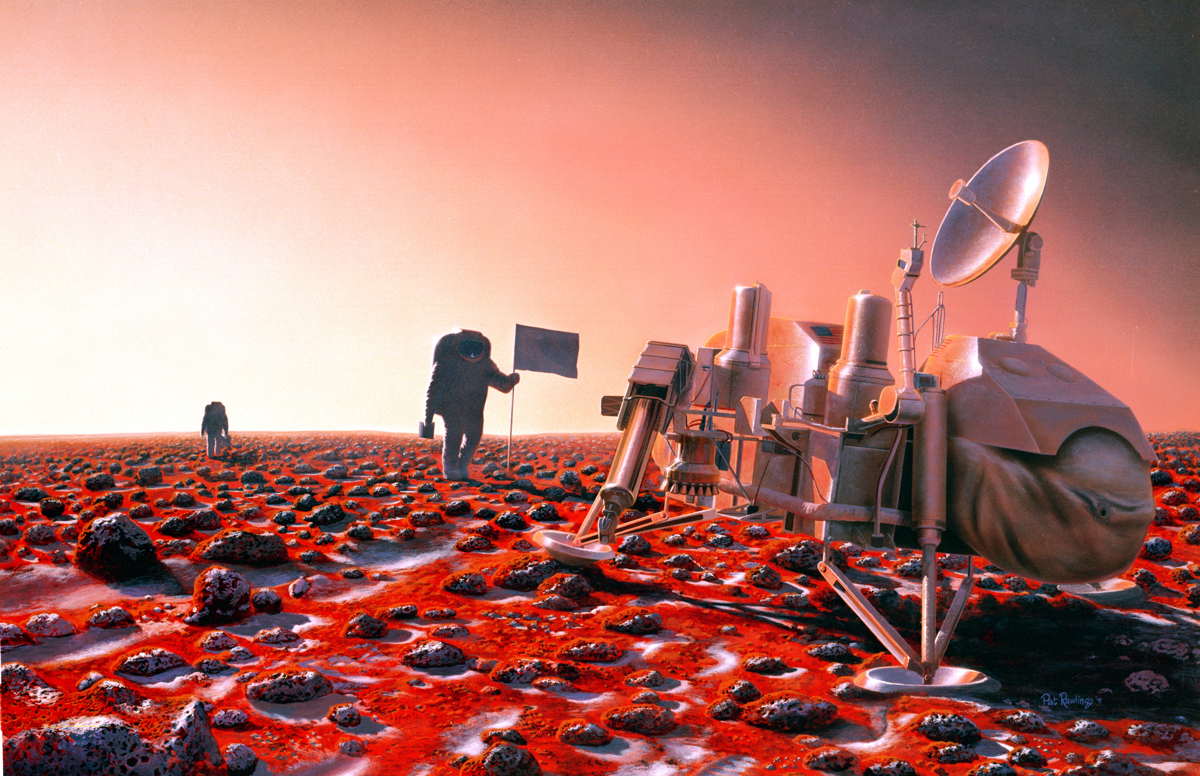 S91-52337 (1991) --- (Artist's concept of possible exploration programs.) The first humans on Mars may revisit the landing site of the Viking 2 Lander in order to study the effects that the Martian surface and atmosphere have had on the spacecraft. These images produced for NASA by Pat Rawlings. Technical concepts from NASA's Planetary Projects Office, Johnson Space Center (JSC).